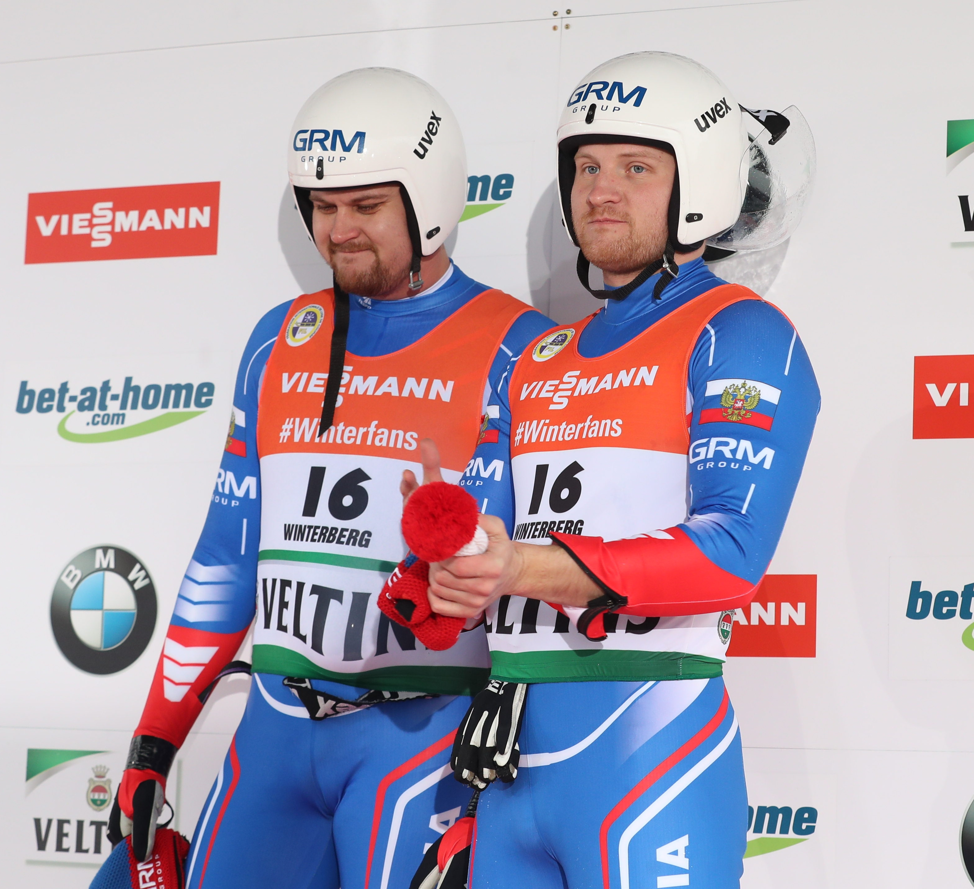 Doubles race at the FIL World Luge Championships 2019 in Winterberg